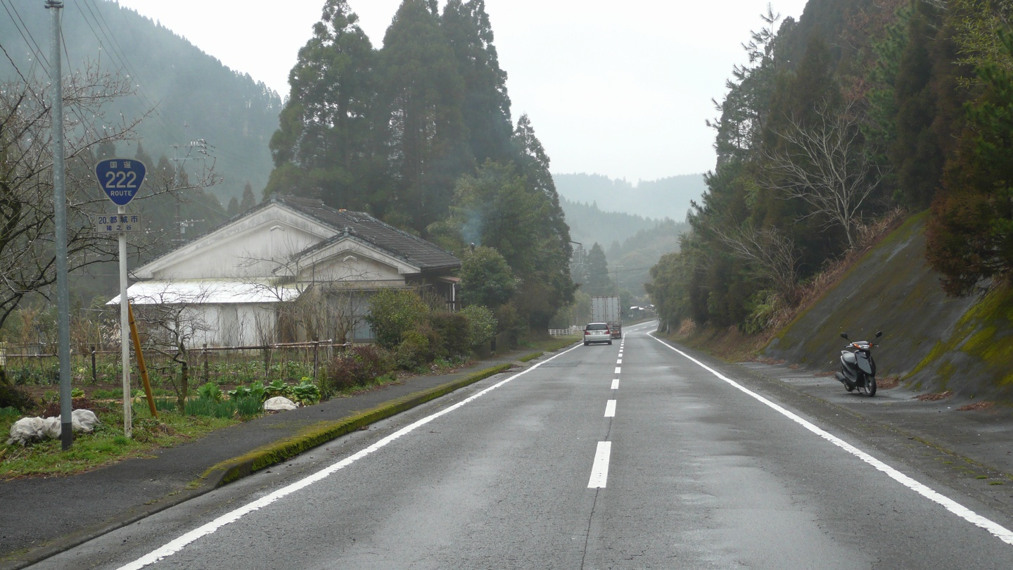 National Route 222 (Inotani, Miyakonojō City, Miyazaki, Japan)